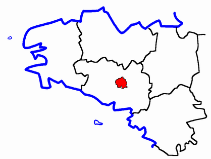 Description: Map for localisazion of cantons of Bretagne region in France Source: made by Hervé Tigier in april 2005 from another large map (published in 1990)